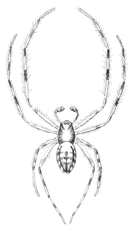 Orsonwelles graphicus (=Labulla graphica), male.